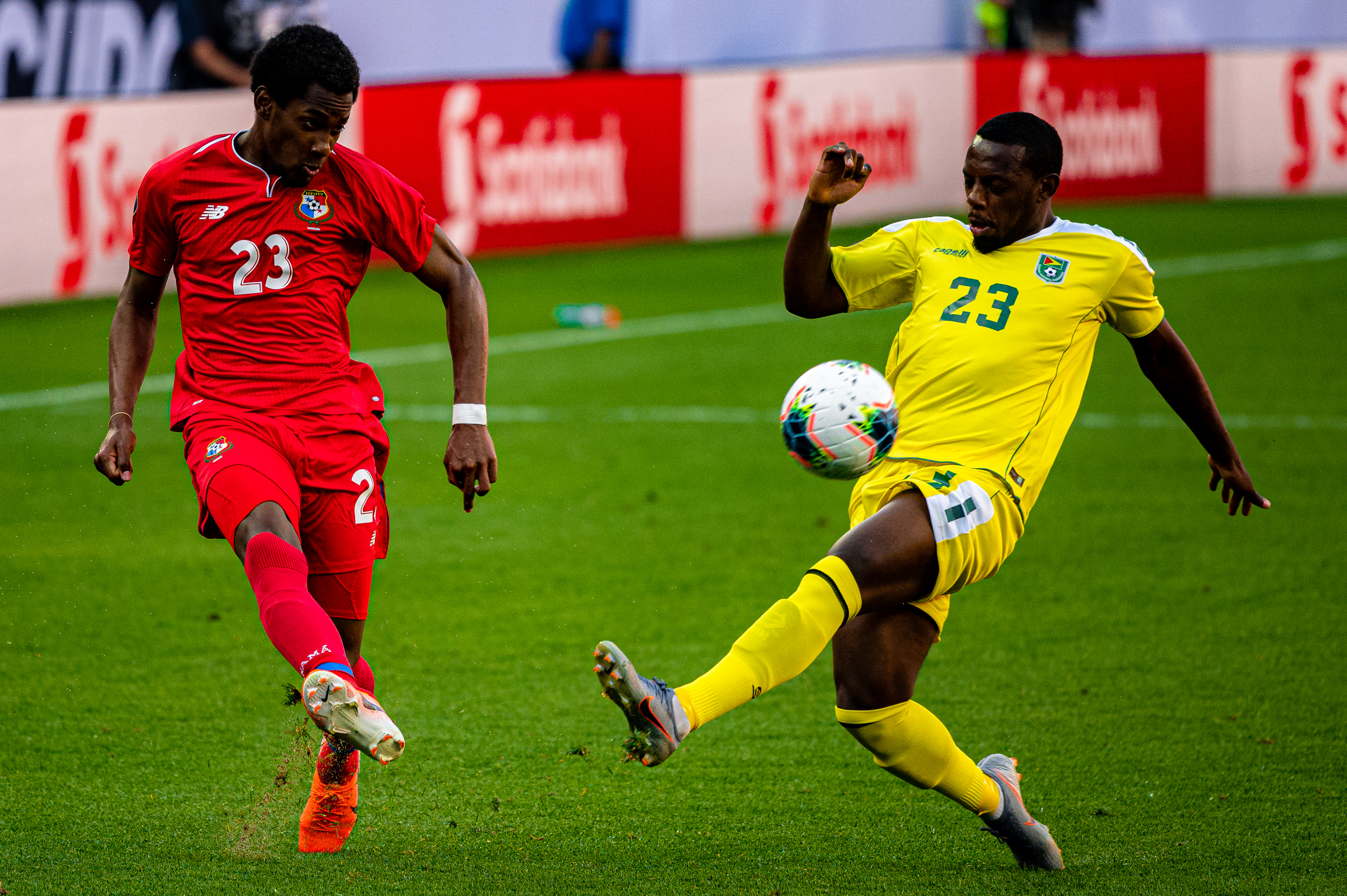 Concacaf Gold Cup